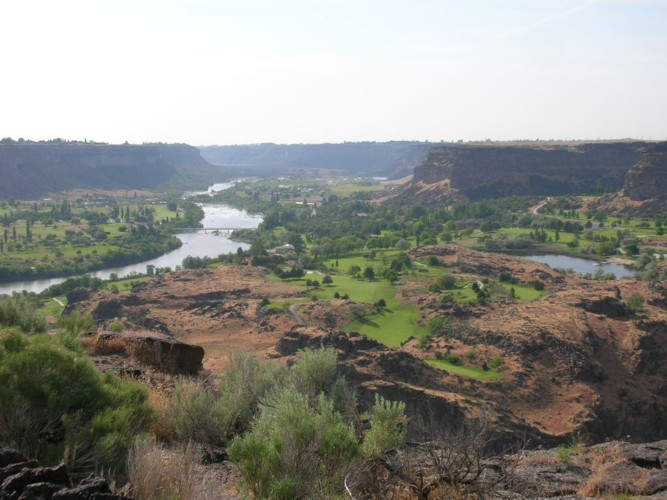 Snake River Canyon at Twin Falls, Idaho. Taken by Faustus37, 25 May 2006.